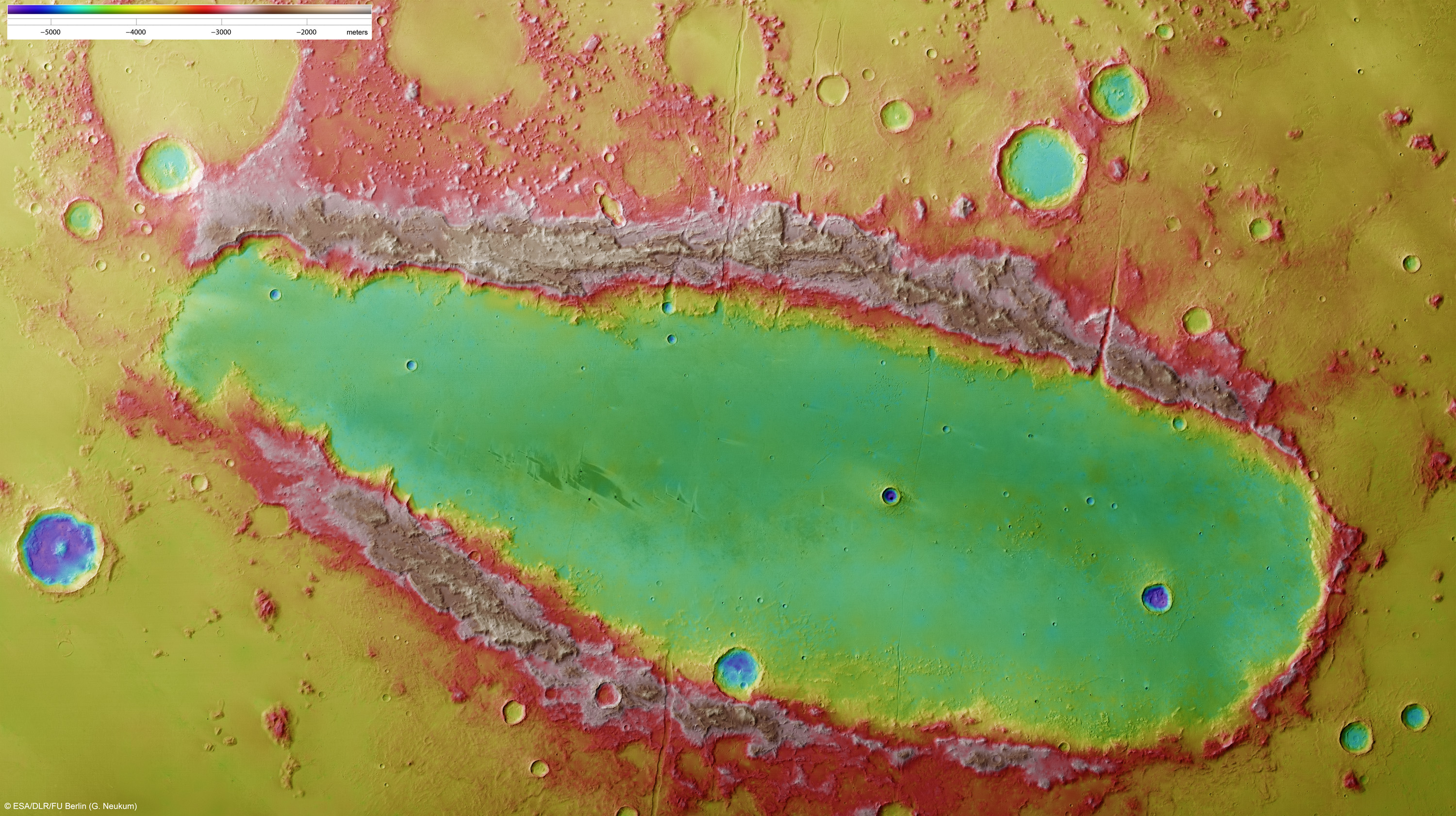 The elevation of Orcus Patera on Mars based on data from Mars Express.